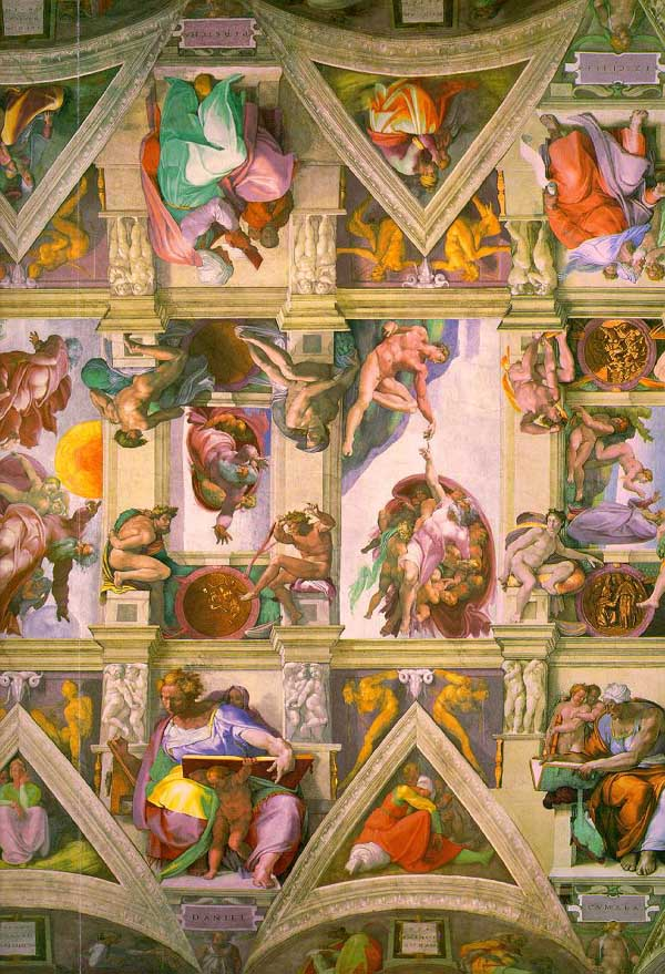 Sistine Chapel ceiling – left centre section. Picture prepared for Wikipedia by Adrian Pingstone in April 2003.